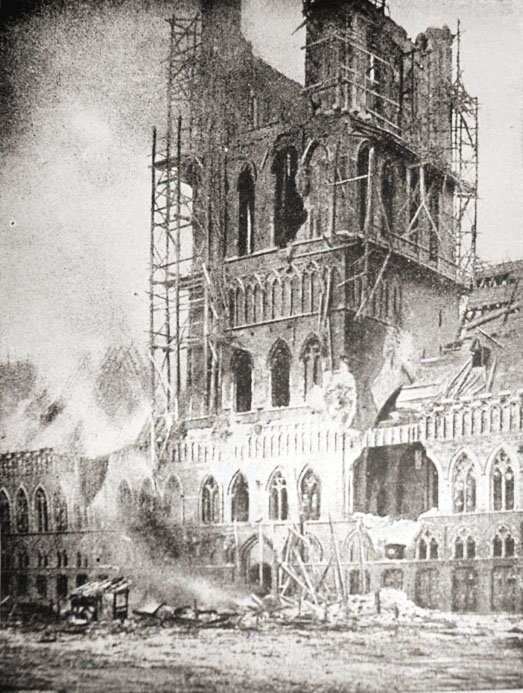 Ypres on Fire